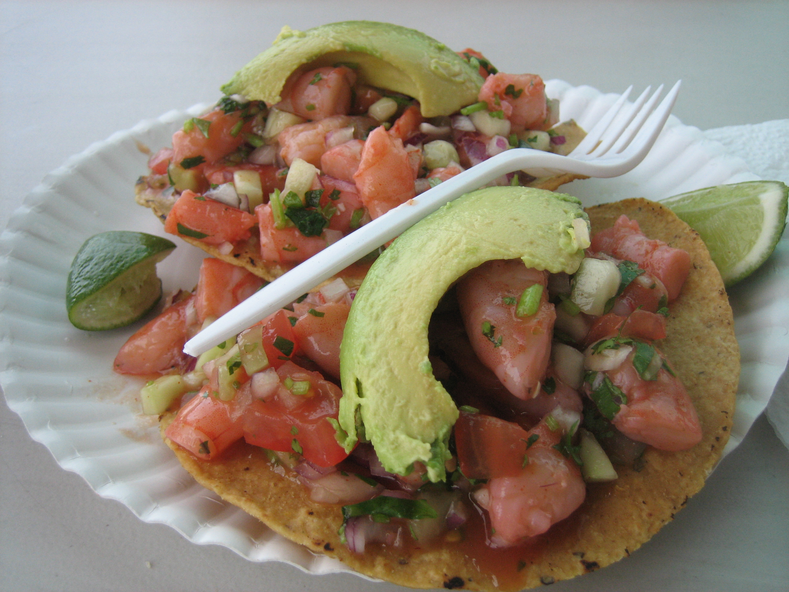 Shrimp tostadas (tostadas de ceviche de camarón) as served by Tacos Sinaloa (a taco truck) in Oakland, California, USATacos Sinoloa - Lunch